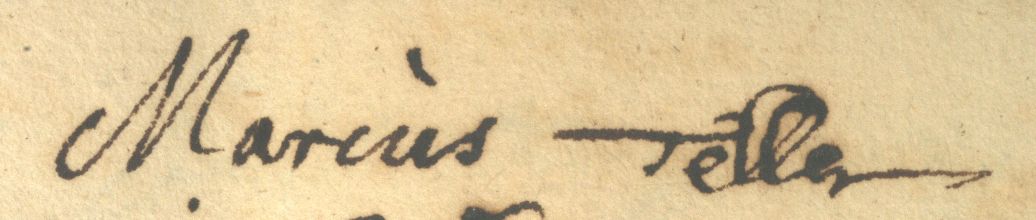 Signature of the composer Marcus Teller under his will, 16 October 1728.